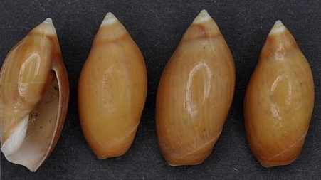 Seashells of Ancilla ventricosa (Lamarck, 1811)[1] from the collection of Naturalis Biodiversity Center, Taken in Red Sea.